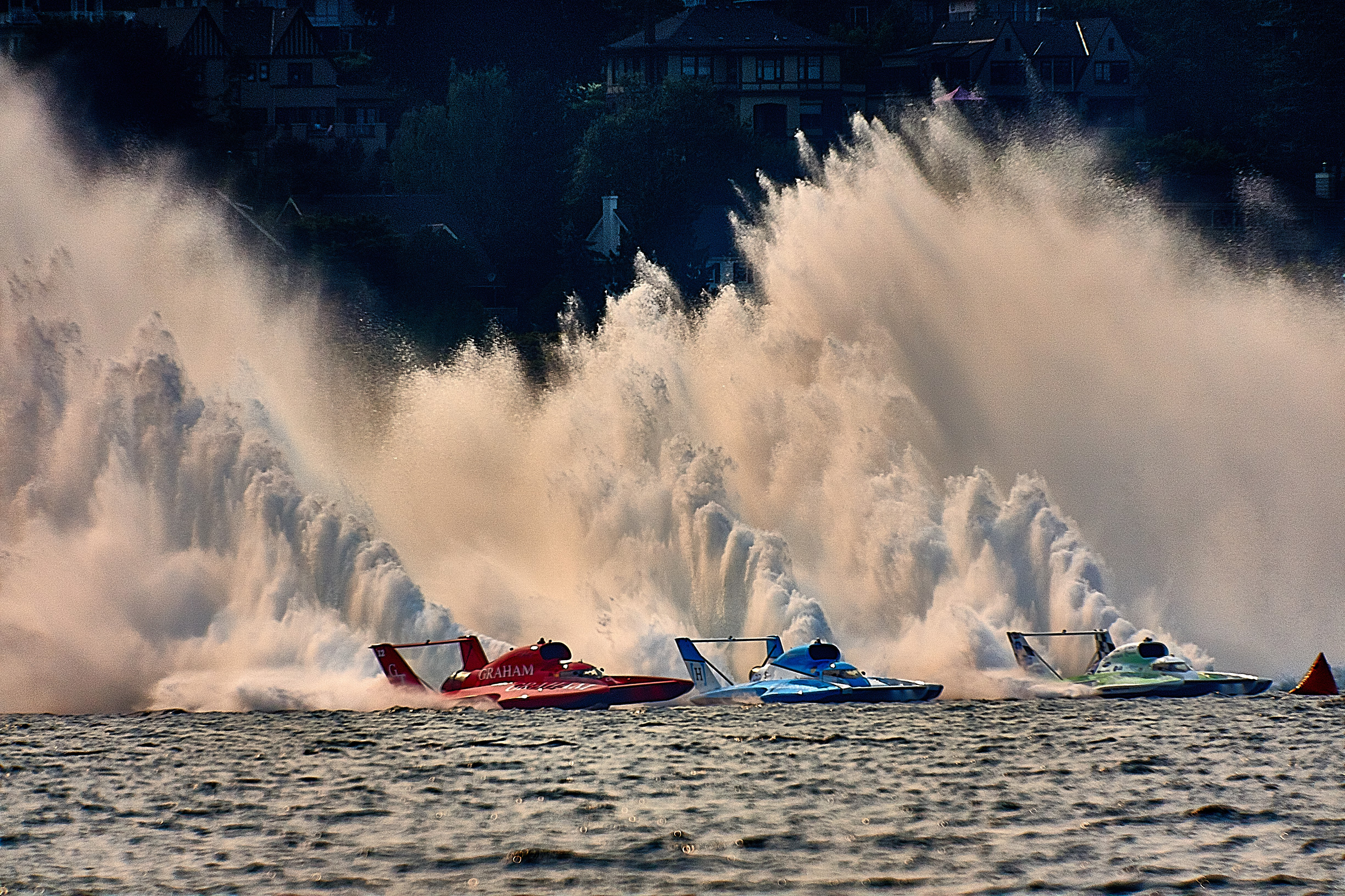 Seafair 2017 H1 Unlimited Final. First Turn after the start.